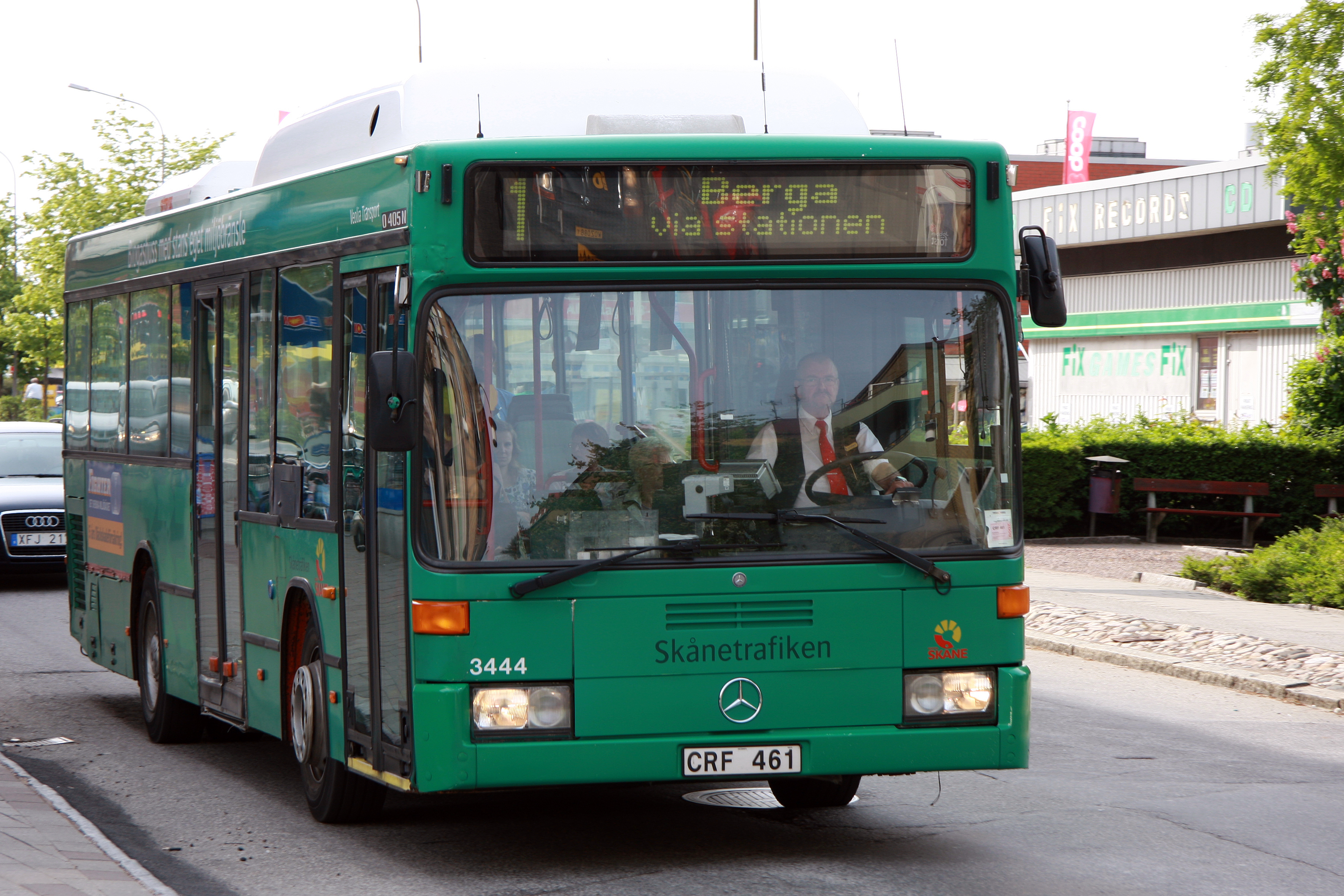 Mercedes-Benz O405NK CNG city bus in Eslöv, Sweden. Year built 1998.